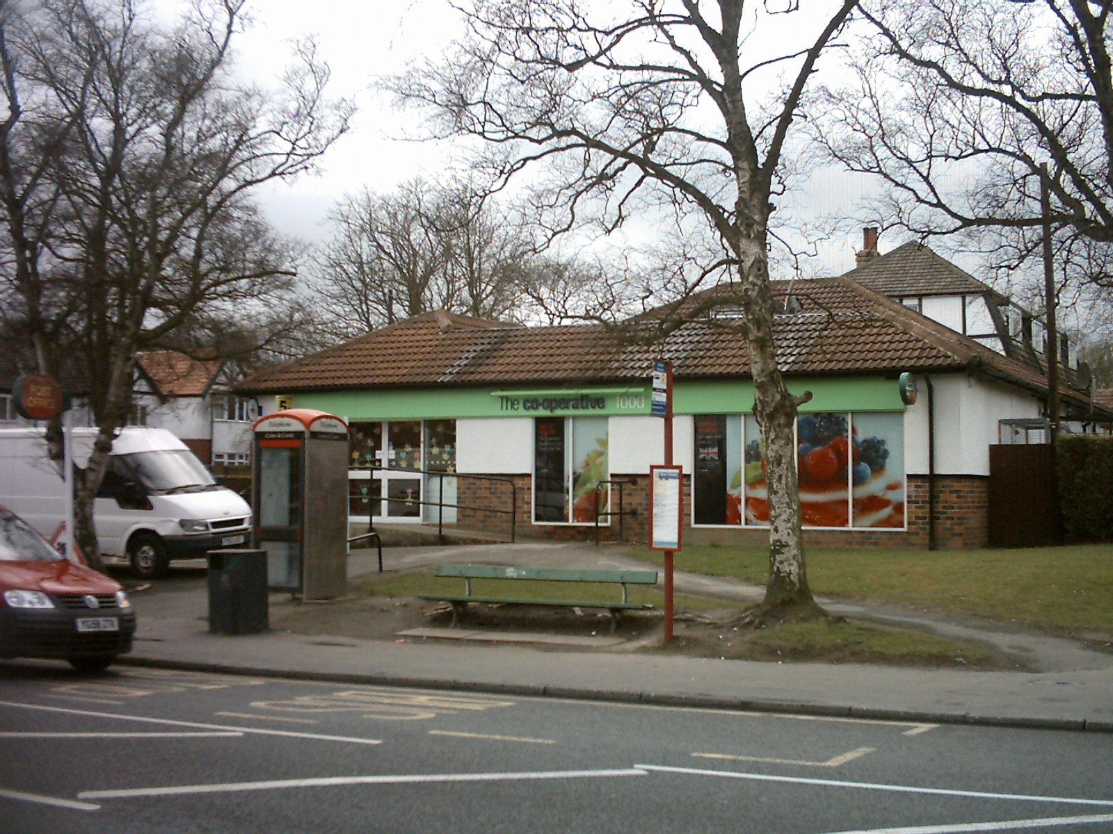 The Co-op in Otley Road in Lawnswood, Leeds, West Yorkshire